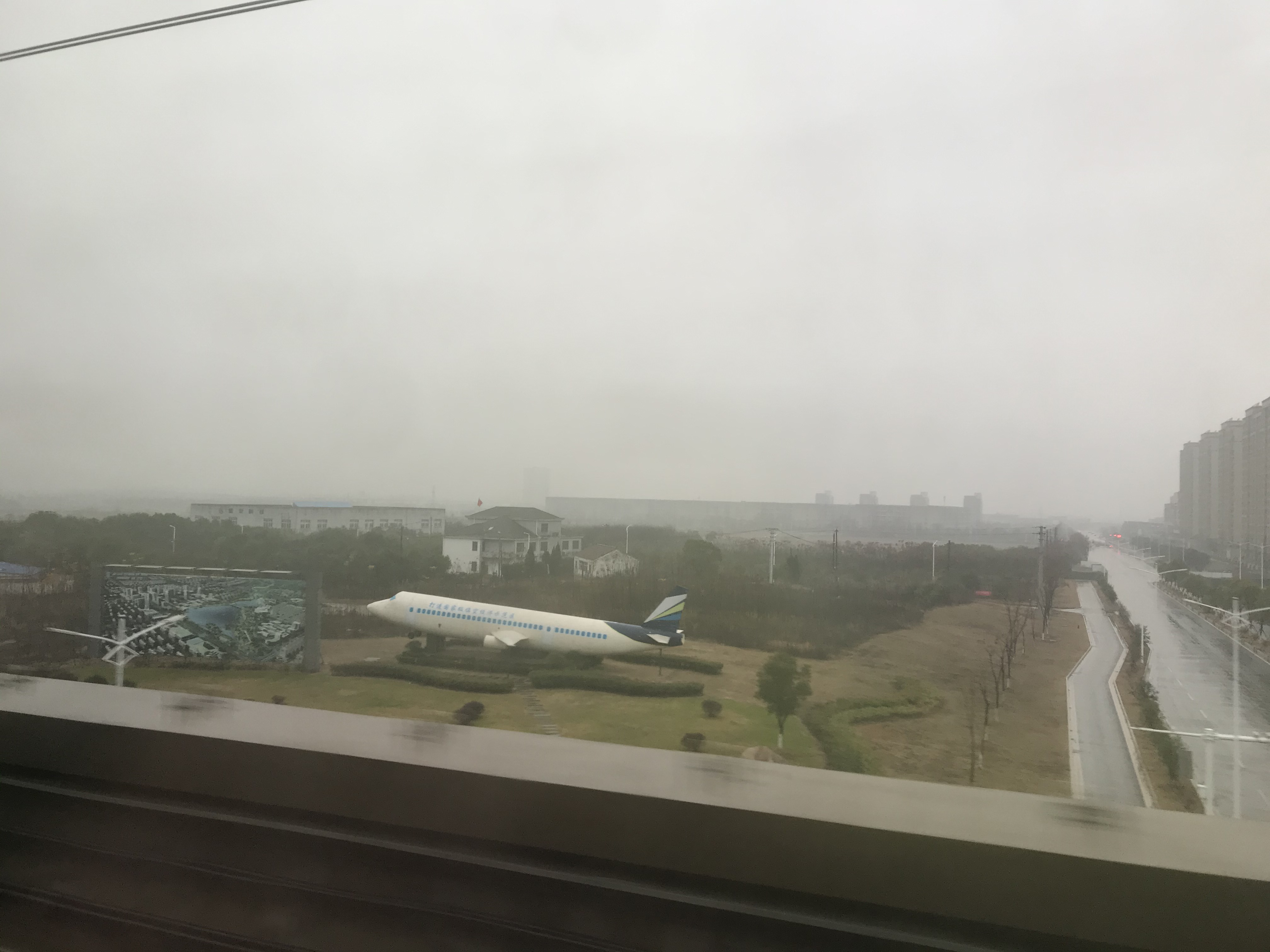 201912 Sign of Jiangning Aviation Town